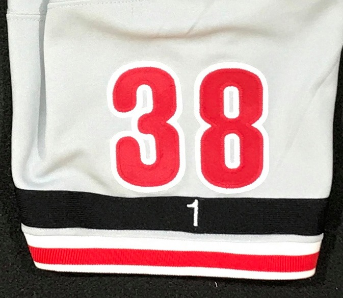 1997 Philadelphia Phillies #38 Road Jersey with memorial armband worn to honor Richie Ashburn following his death on September 9, 1997. Lettered and photographed by William F. Henderson who may be contacted through his website thedream.shop.